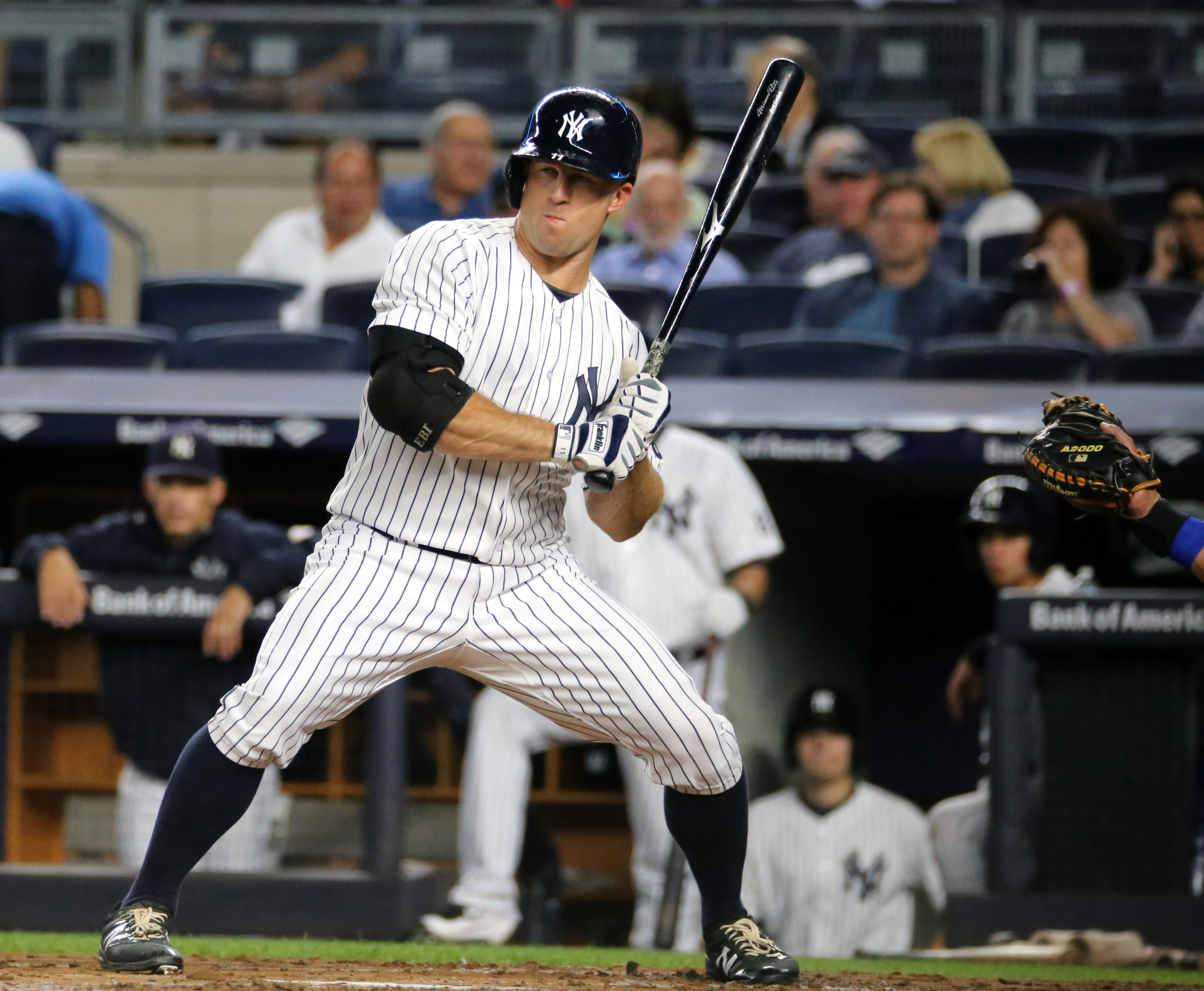 New York Yankees outfielder Brett Gardner during an at bat in the first inning of a game against the Los Angeles Dodgers at Yankee Stadium in the Bronx, New York, NY on September 13, 2016